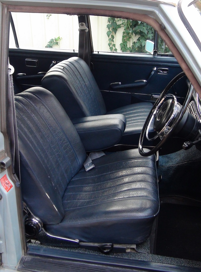 Mercedes Benz W108 interior in MB-Tex, with dual center arm rests, and no head rests. (1968 Australian delivered)